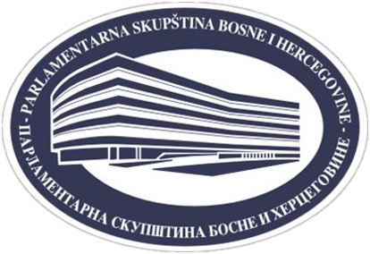 Logo of the Parliamentary Assembly of Bosnia and Herzegovina